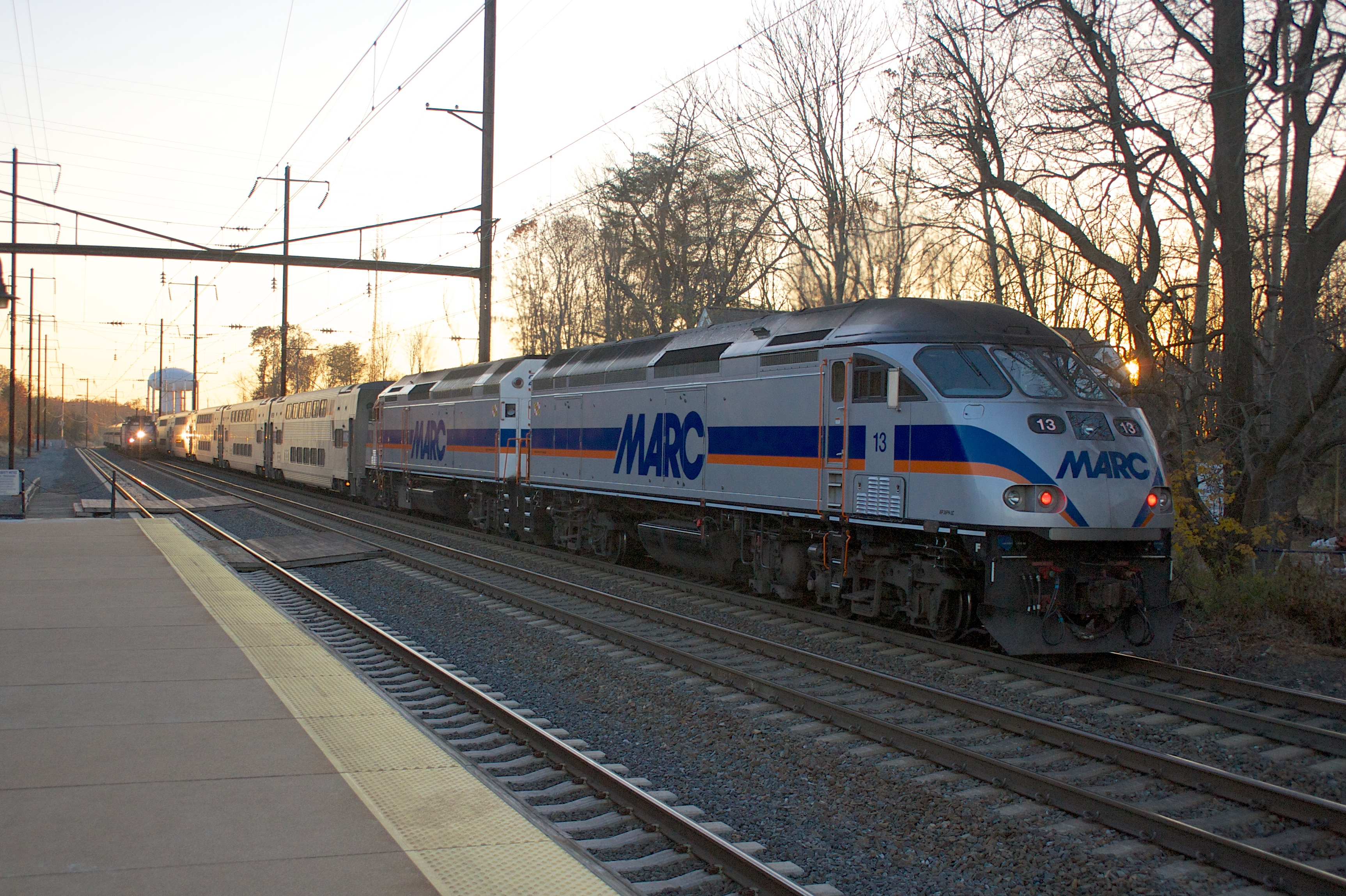 A MARC Penn Line train pulls away from Odenton station as a Northeast Regional is about to pass on the center track